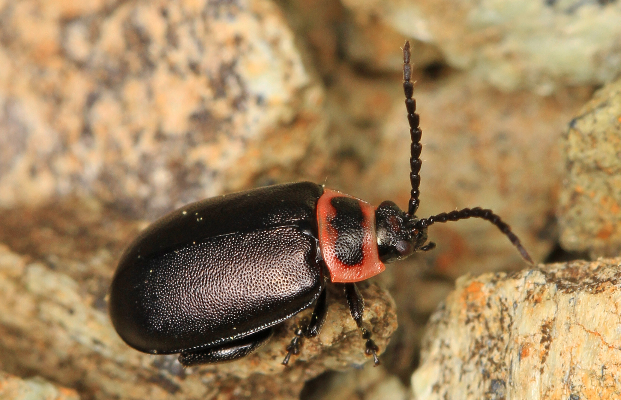 Leaf Beetle - Kuschelina vians, Soldier's Delight, Owings Mills, Maryland. Baltimore County - 5/3/2015 Id by bugguide